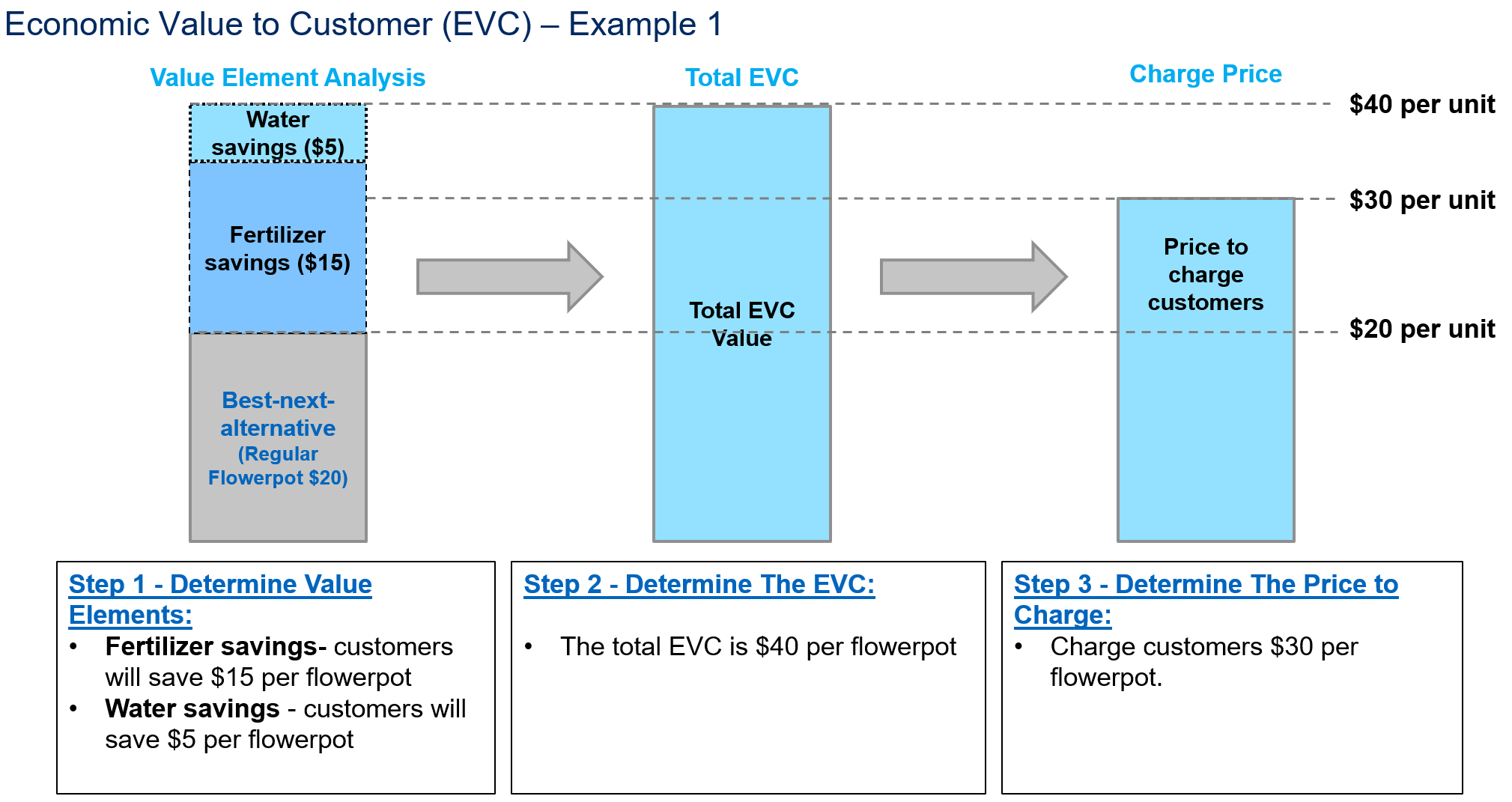 An example to illustrate how to calculate a new product utilizing the EVC method